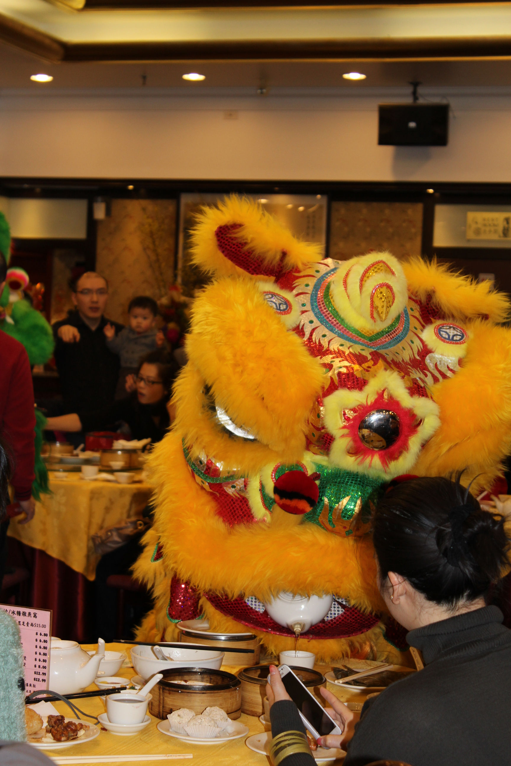 Wushu Project's team giving tea to person(s) who've requested them to at the Premiere Ballroom & Convention Centre - 釣魚臺國宴 for Chinese Year 2014